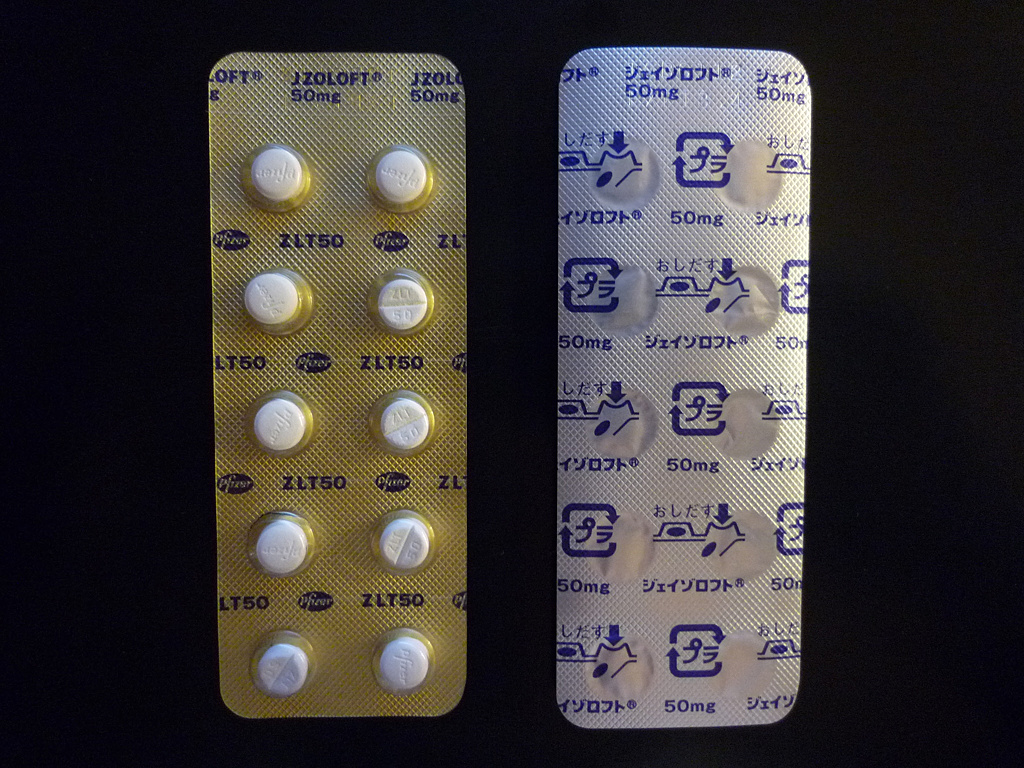 JZoloft® 50mg Tablets as Zoloft® selling in Japan Sertraline HCl Tablets